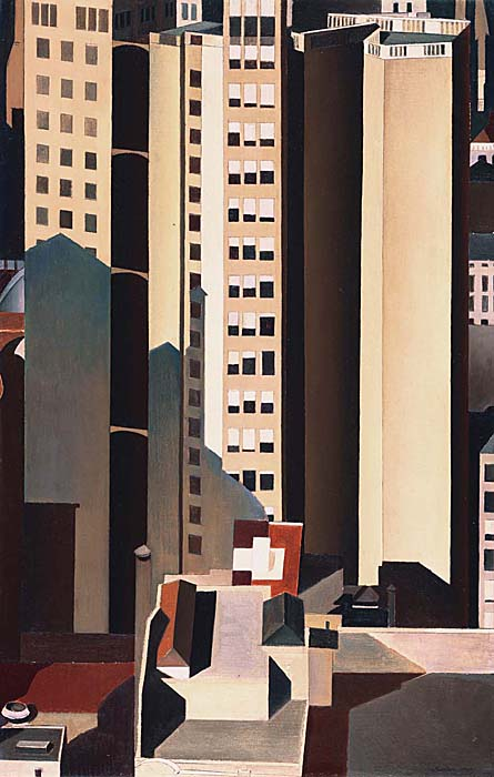 Sheeler painting dated in 1922